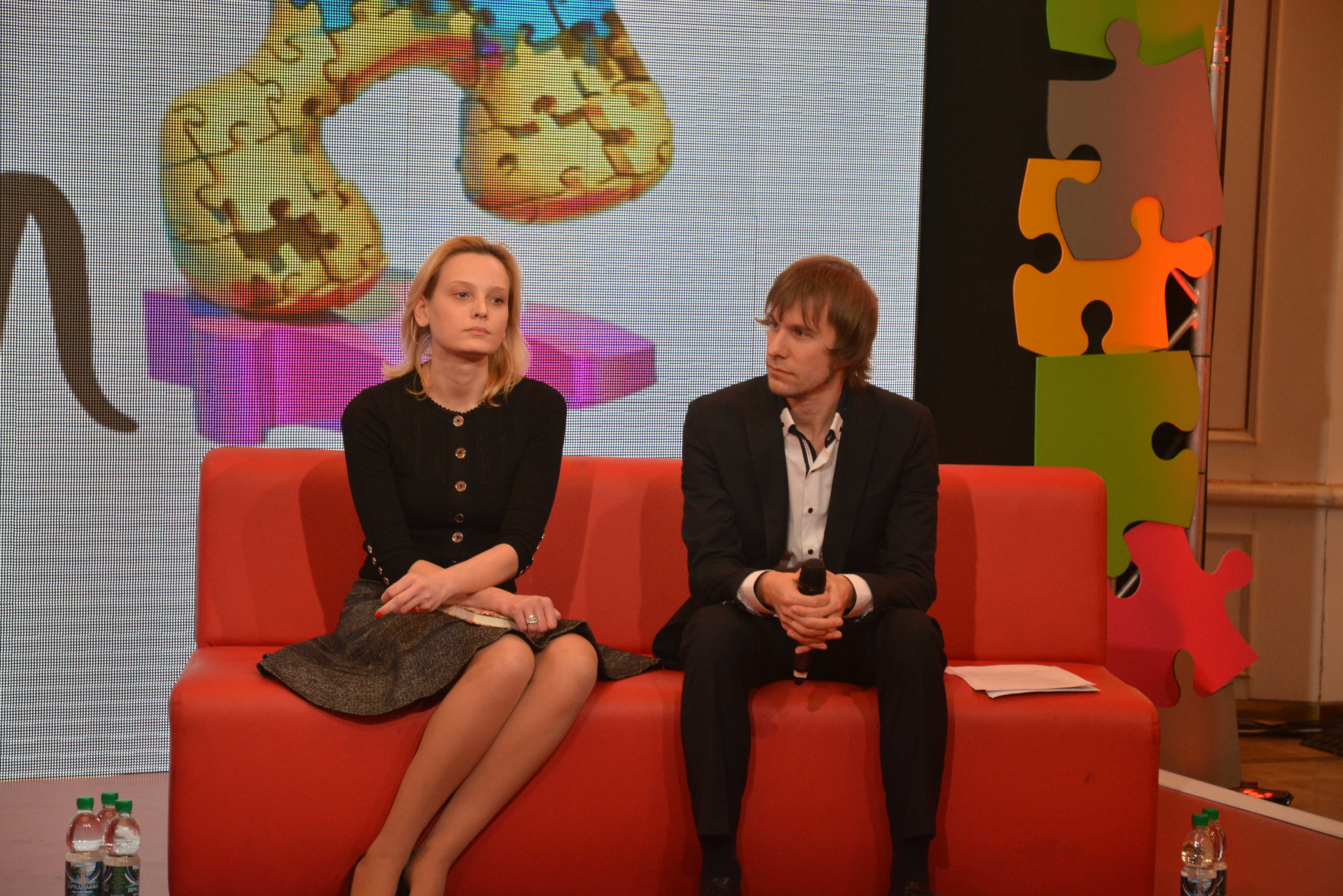 Junior Eurovision 2013 press conference: Victoria Romanova (executive producer), Vladislav Yakovlev (EBU Executive Supervisor)